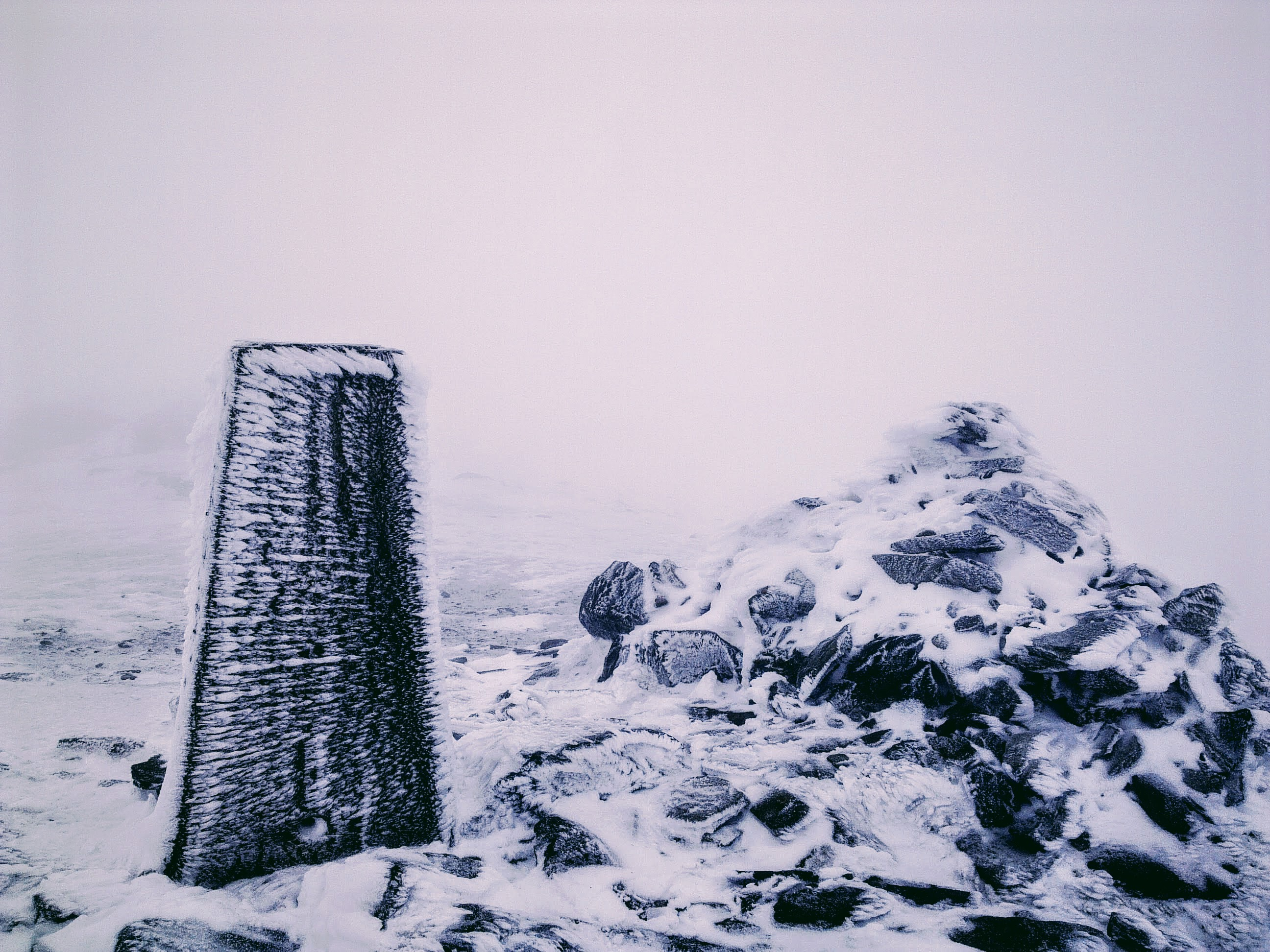 Cairn on top of Ben Vorlich, taken in early March 2017